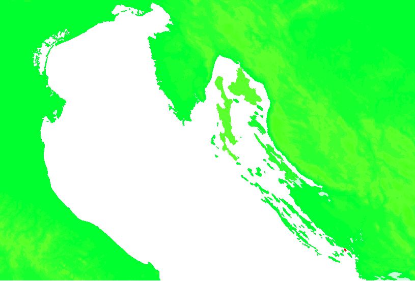 Position of the inhabited island of Prvić, Croatia.